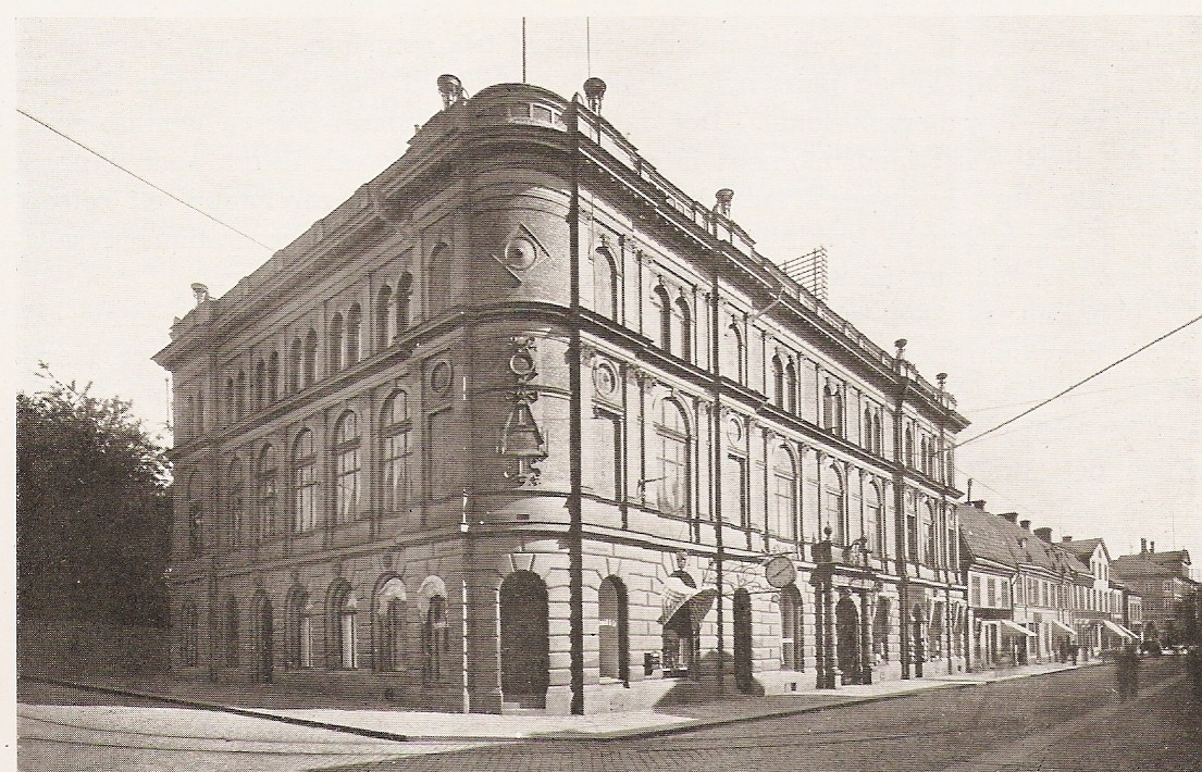 Göteborgs 3rd nation house Uppsala 1887-1960